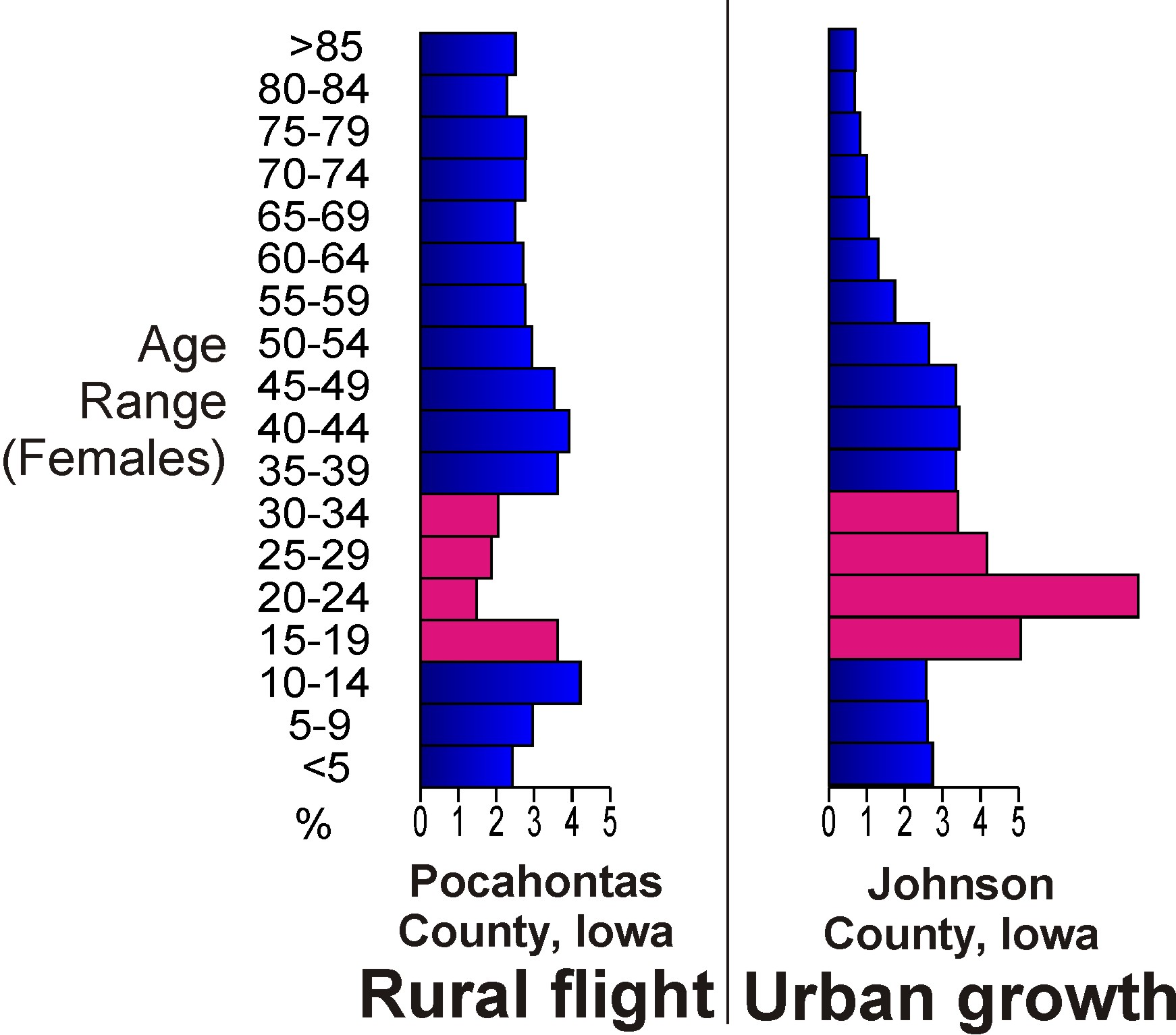 Chart comparing the age curves of Pocahontas County and Johnson County to demonstrate Rural flight